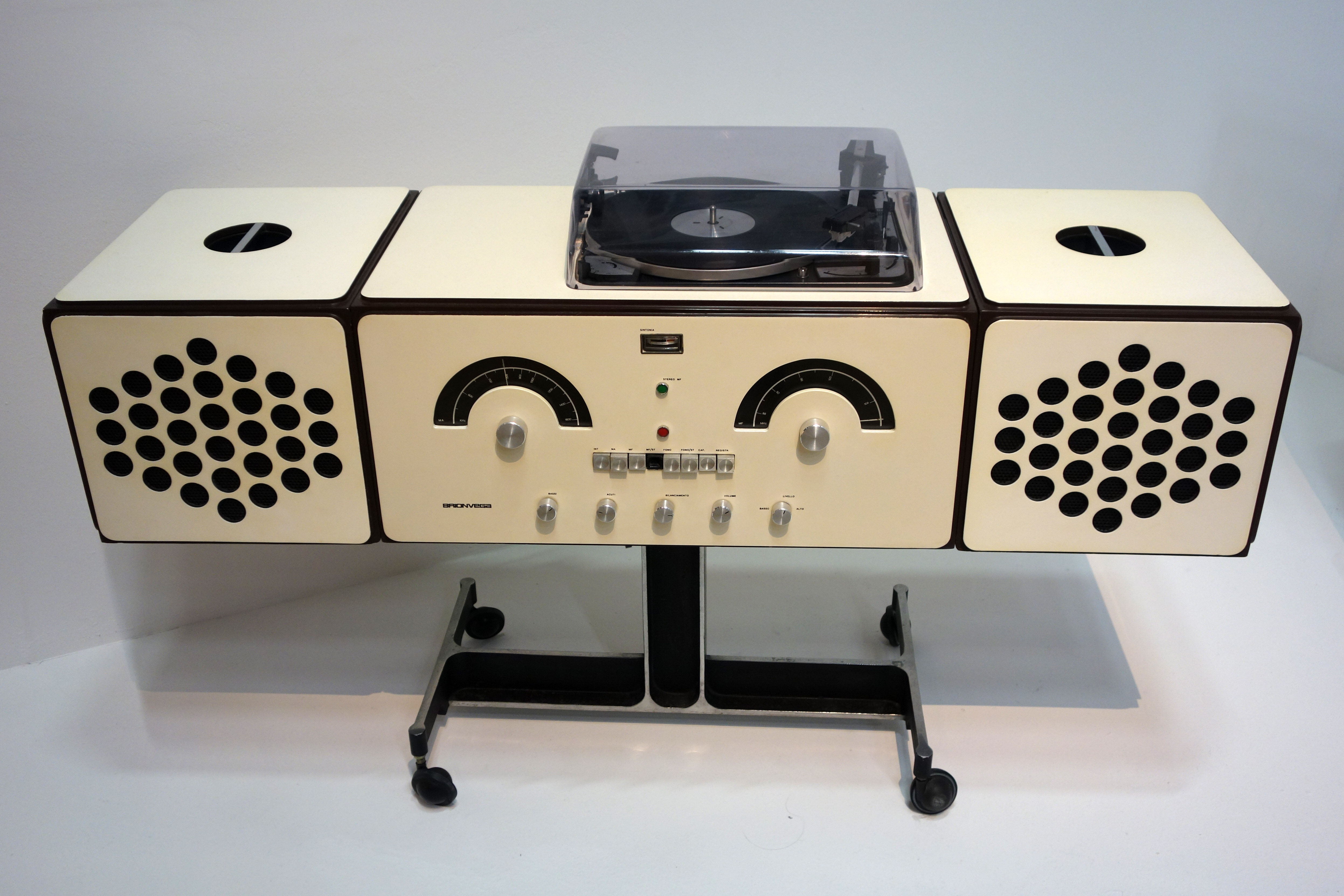 Stereo radiophonograph Brionvega RR126 (1965) by Pier Giacomo Castiglioni. Musée national d'art moderne, Paris, no. AM 1992-1-238.